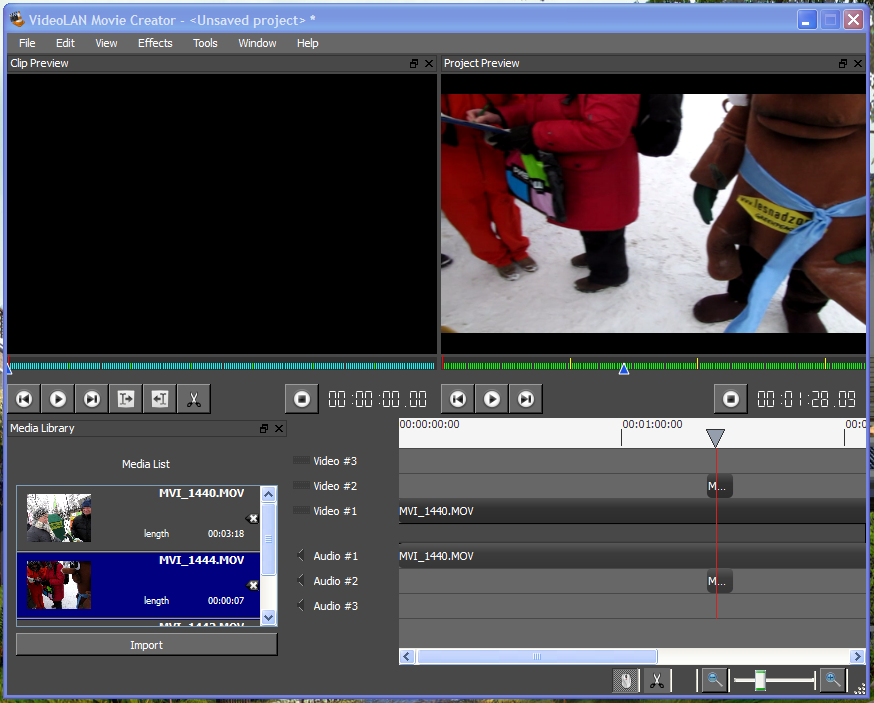 Screenshot of VLCMC video editor.